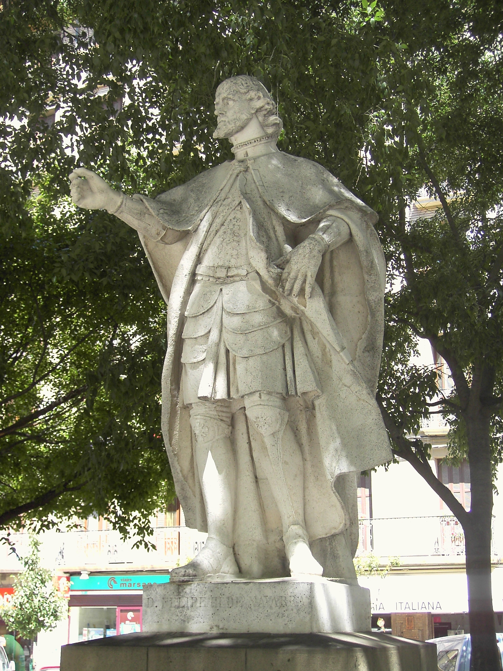 Modern statue of medieval king Philip the IIIth, located in Pamplona. It was sculpted as a part of the iconographic program of the Royal Palace of Madrid, ordered by Fray Martín Sarmiento.